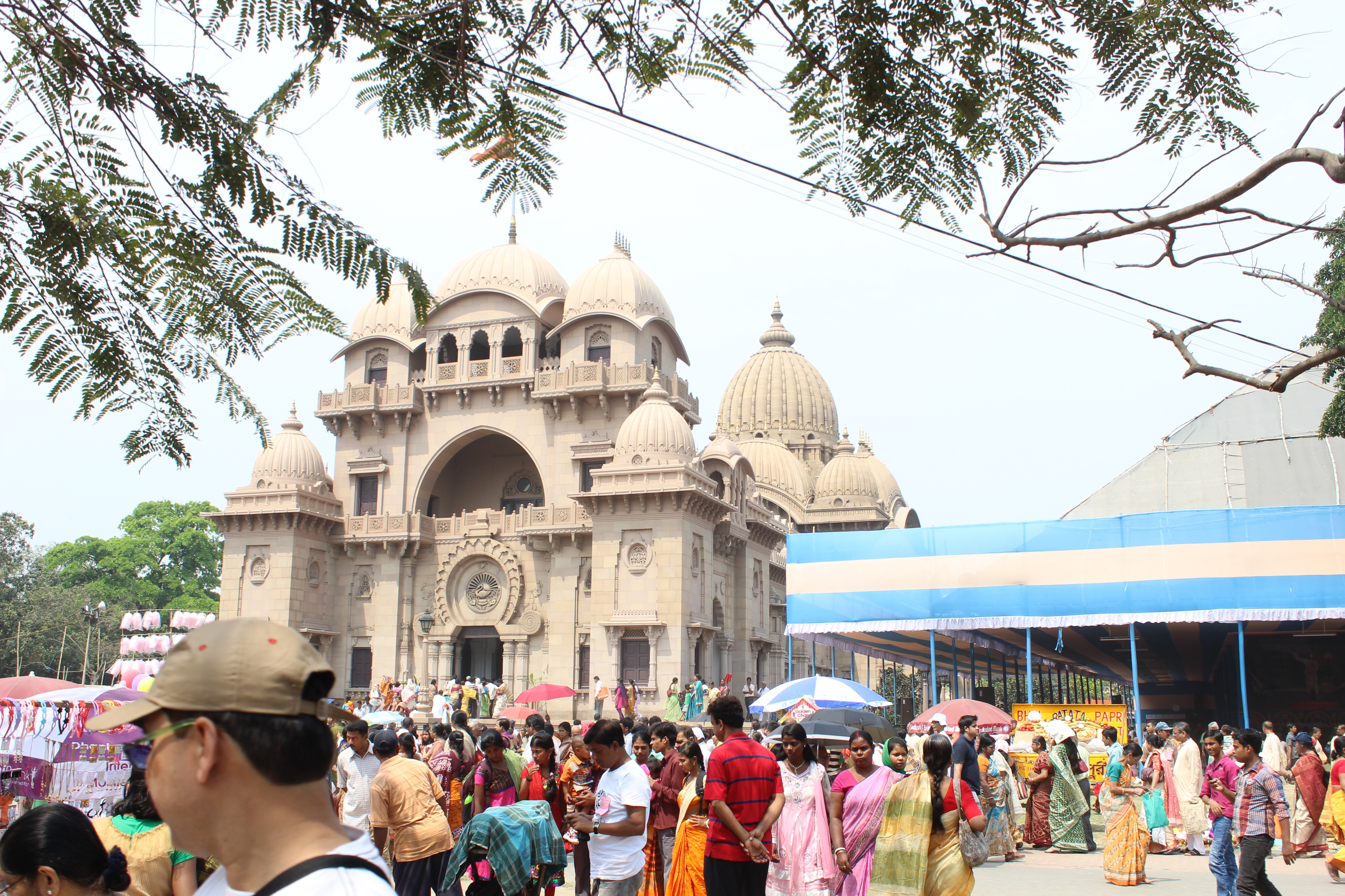 Thousands of people visit the Math on this day for the annual day procession.